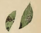 Stainton’s Natural History of the Tineina (1855–1873): Stigmella minusculella mined pieces of pear leaves